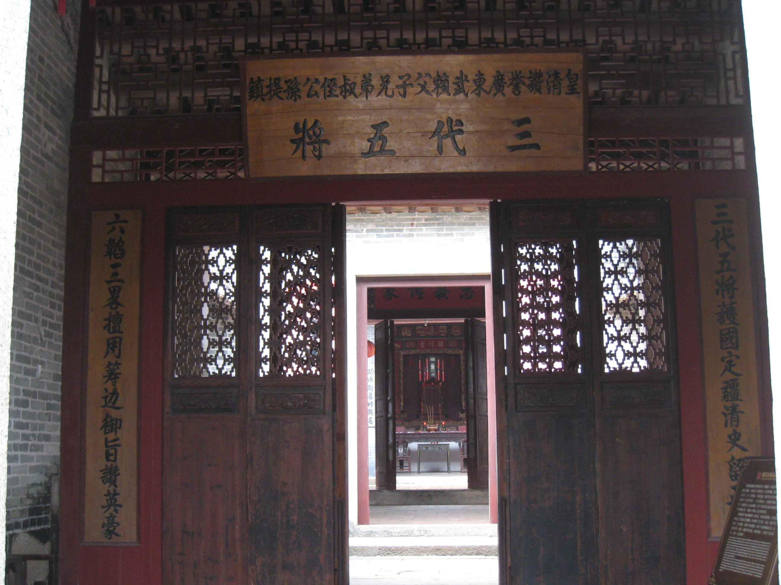 the entrance to the citang of Laifu